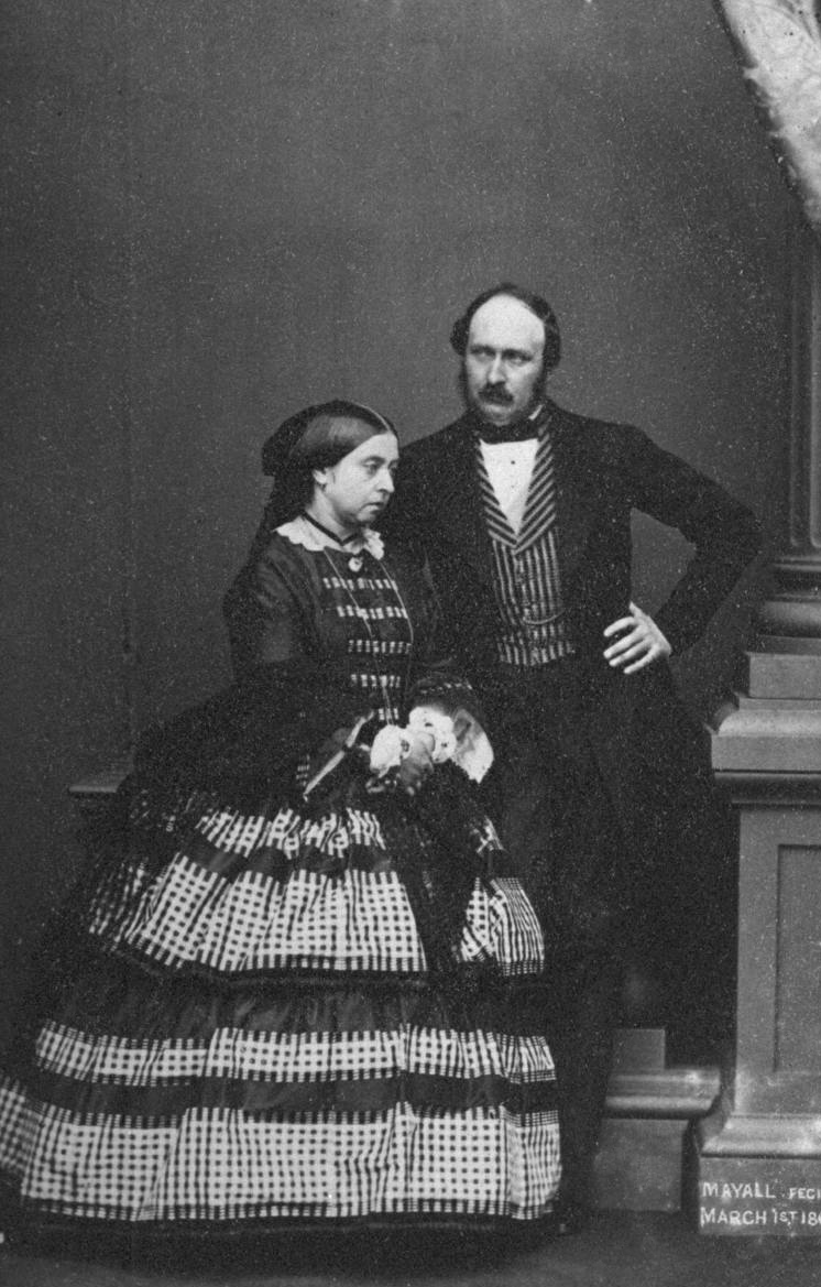 Queen Victoria and Prince Albert 1861